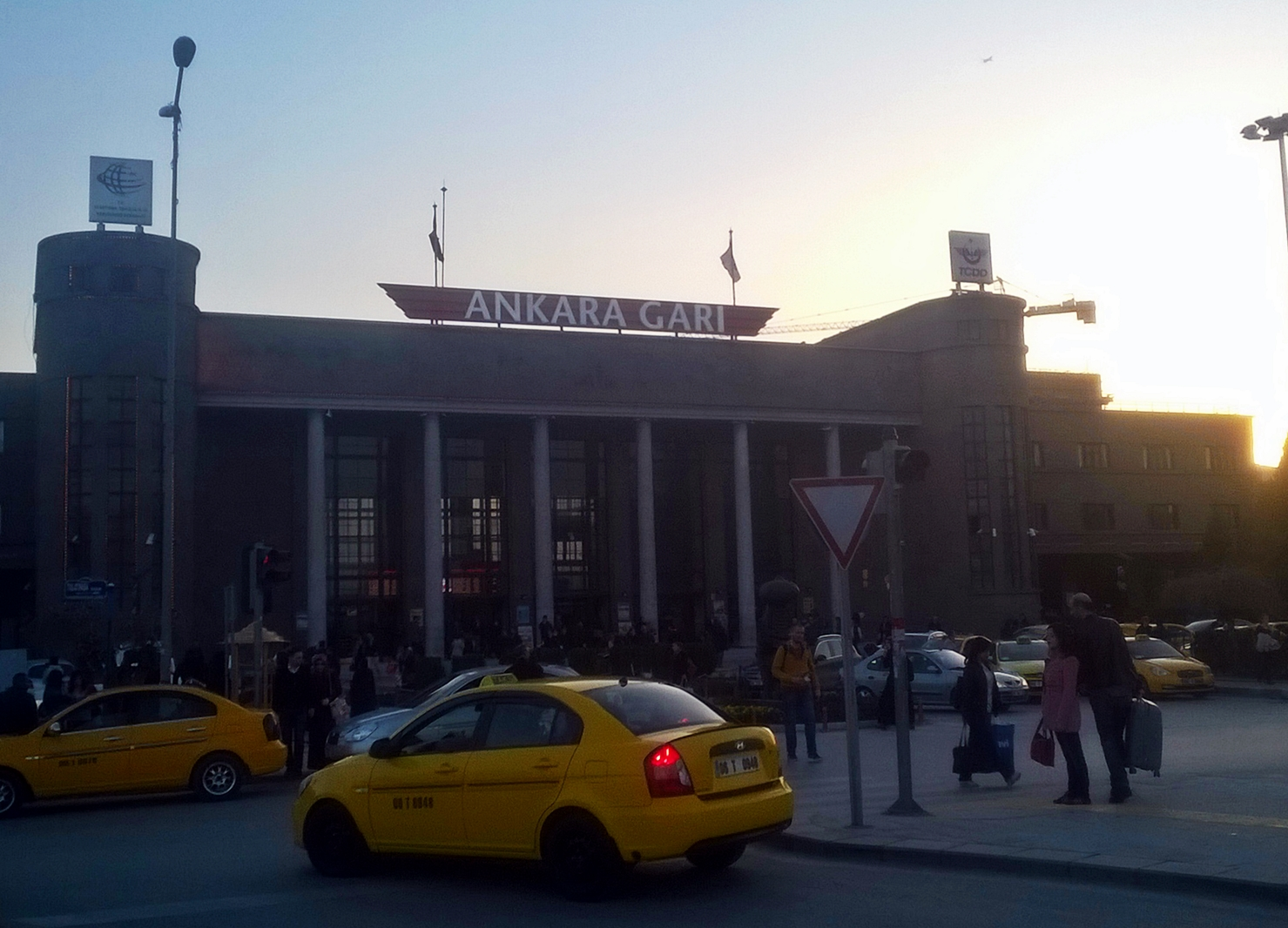 Ankara GarTürkçe: Ankara Tren Garı, Mart 2015